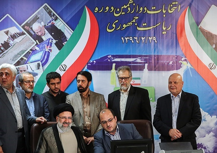 Ebrahim Raisi registering for the 2017 Iranian presidential election candidacy